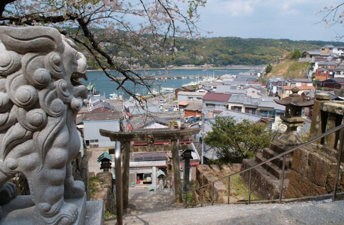 Hososhima Port, Hyuga City, Miyazaki Prefecture